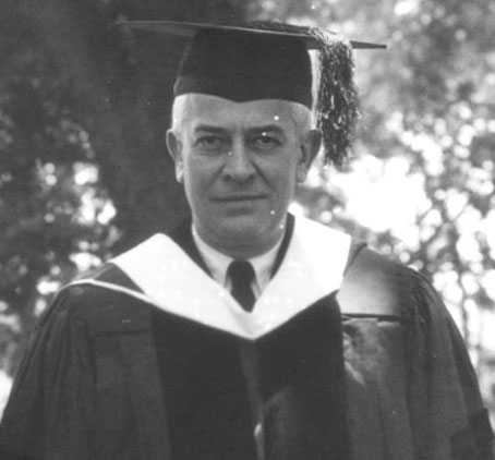 U.S. author Carl Van Doren